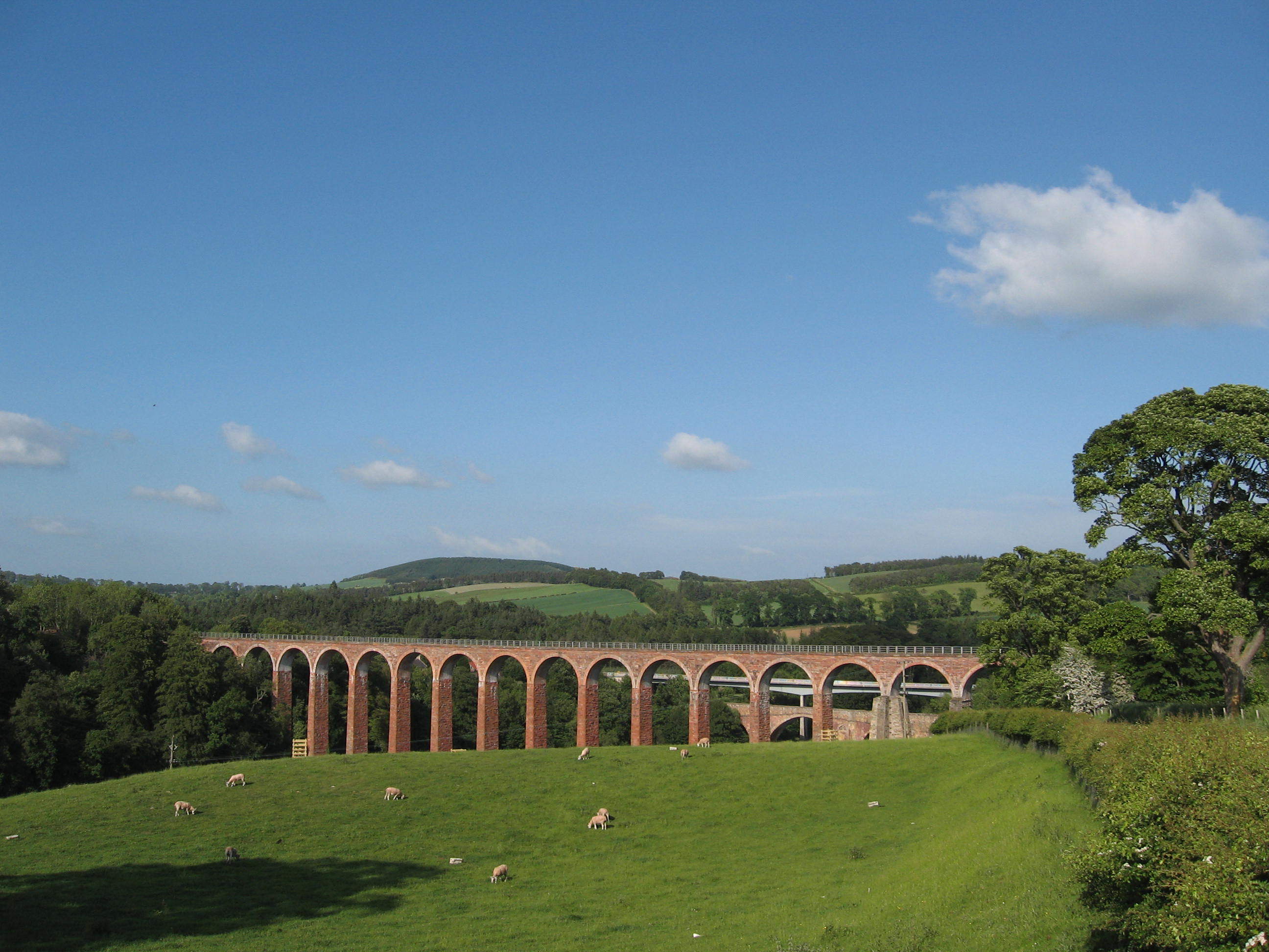 leaderfoot